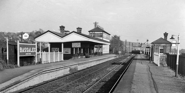 Bassaleg Junction Station. View eastward, towards Newport. Junction of Newport - Western Valleys line with former Brecon & Merthyr line to Machen, Merthyr and Brecon. Station closed 30/4/62, but lines remain open (to some extent) for Goods.